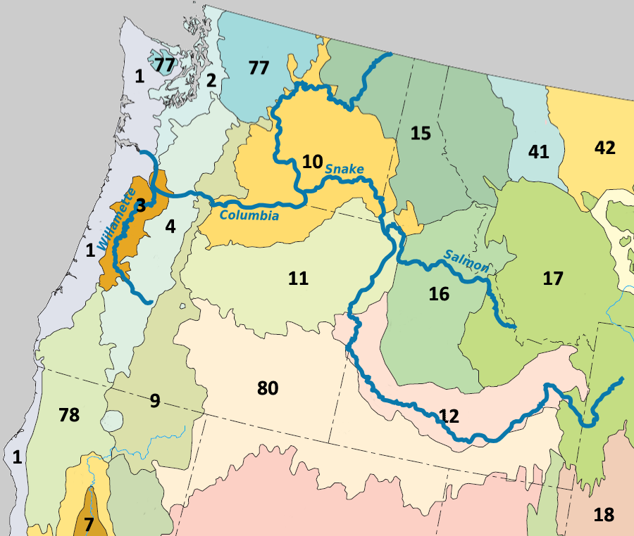 Level III ecoregions in the Pacific Northwest, as defined by the U.S. Environmental Protections Agency + Columbia River.